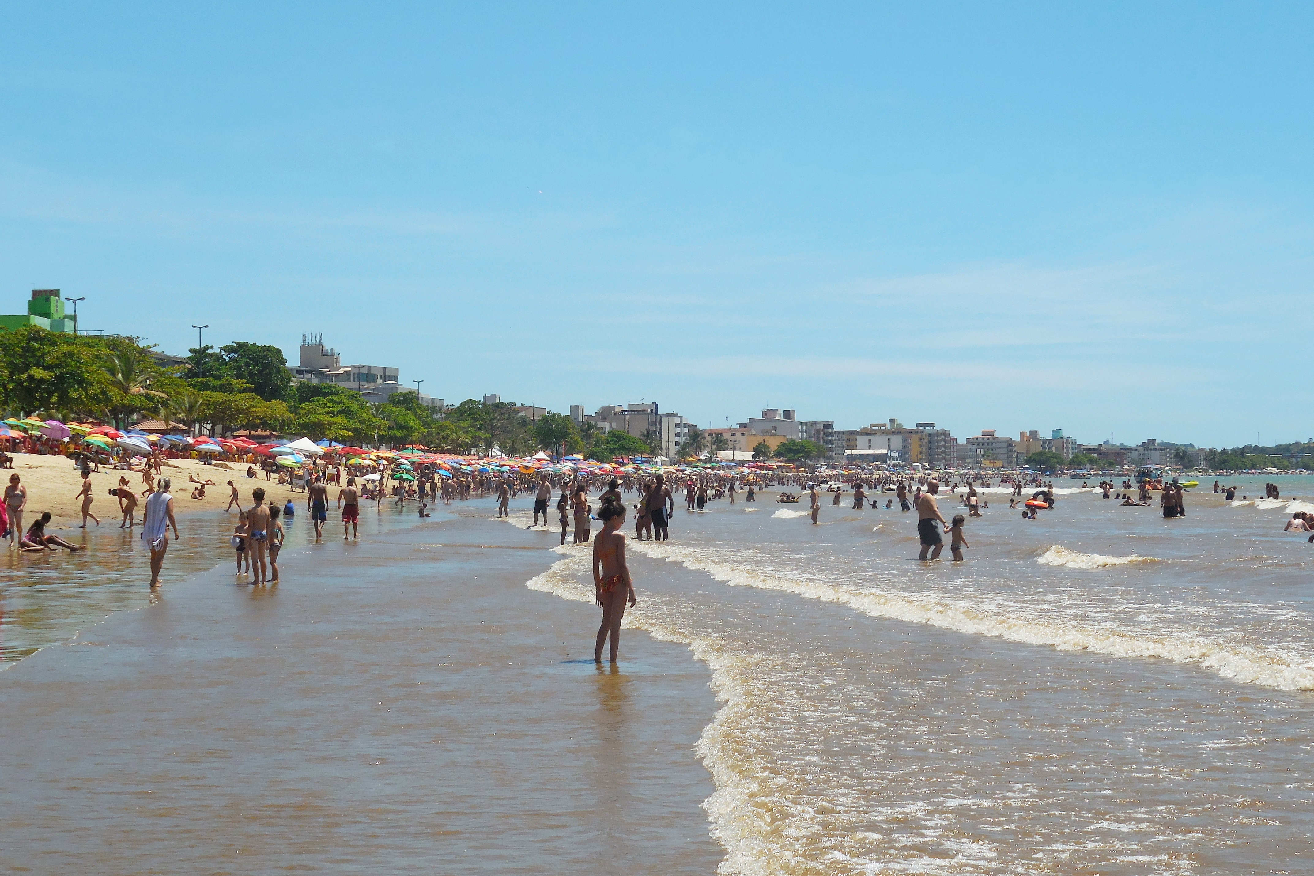 The littoral of Piúma, Espírito Santo, Brazil, during high season.